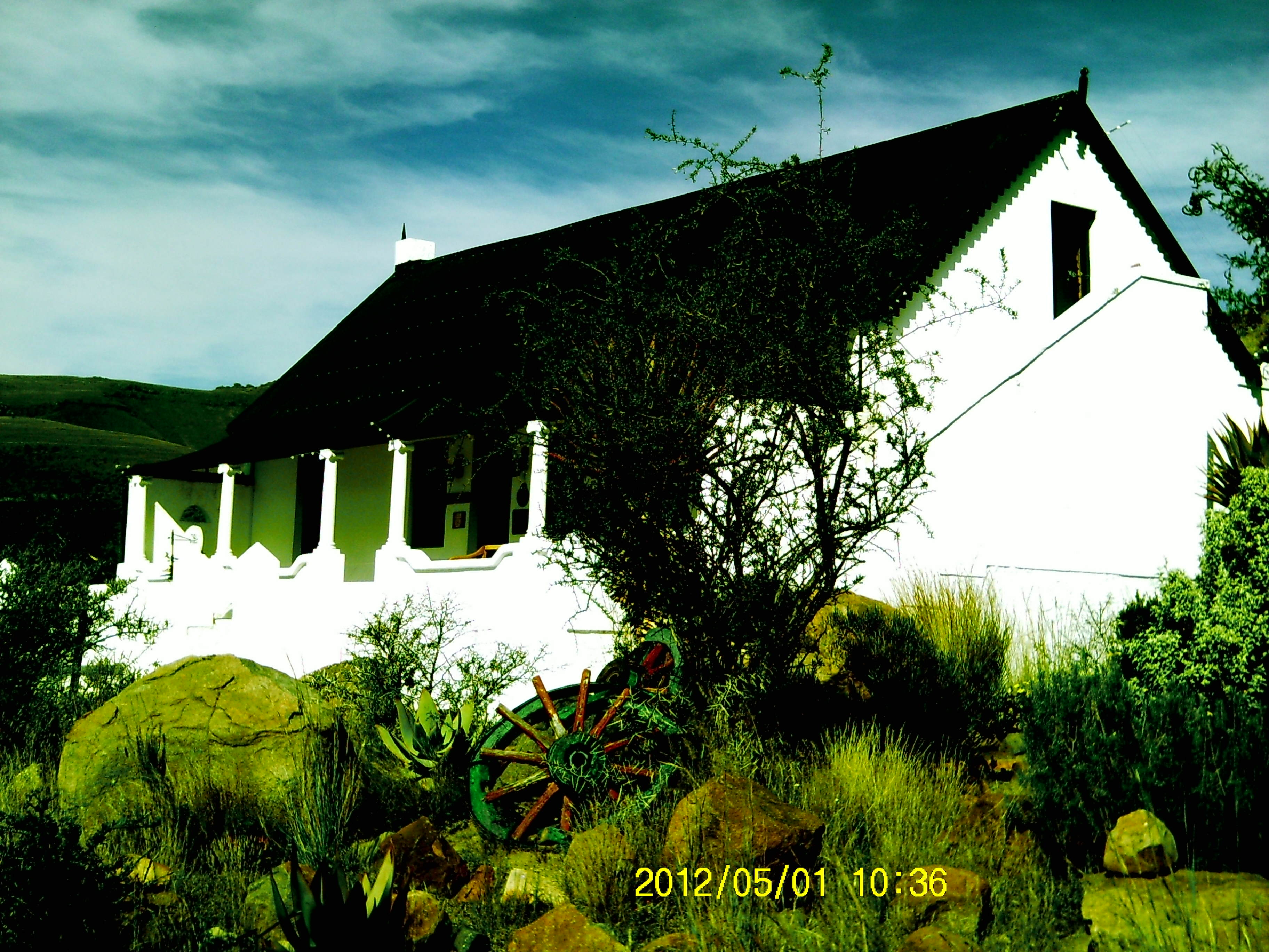 Doornhoek Guest house in Mountain Zebra Park, South Africa.